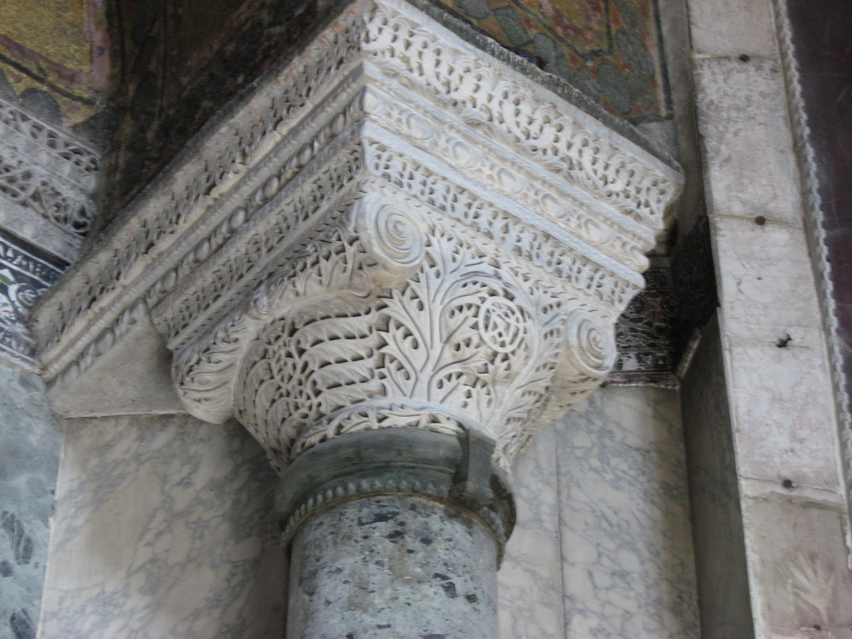 A Byzantine Column in Hagia Sophia in Istanbul.